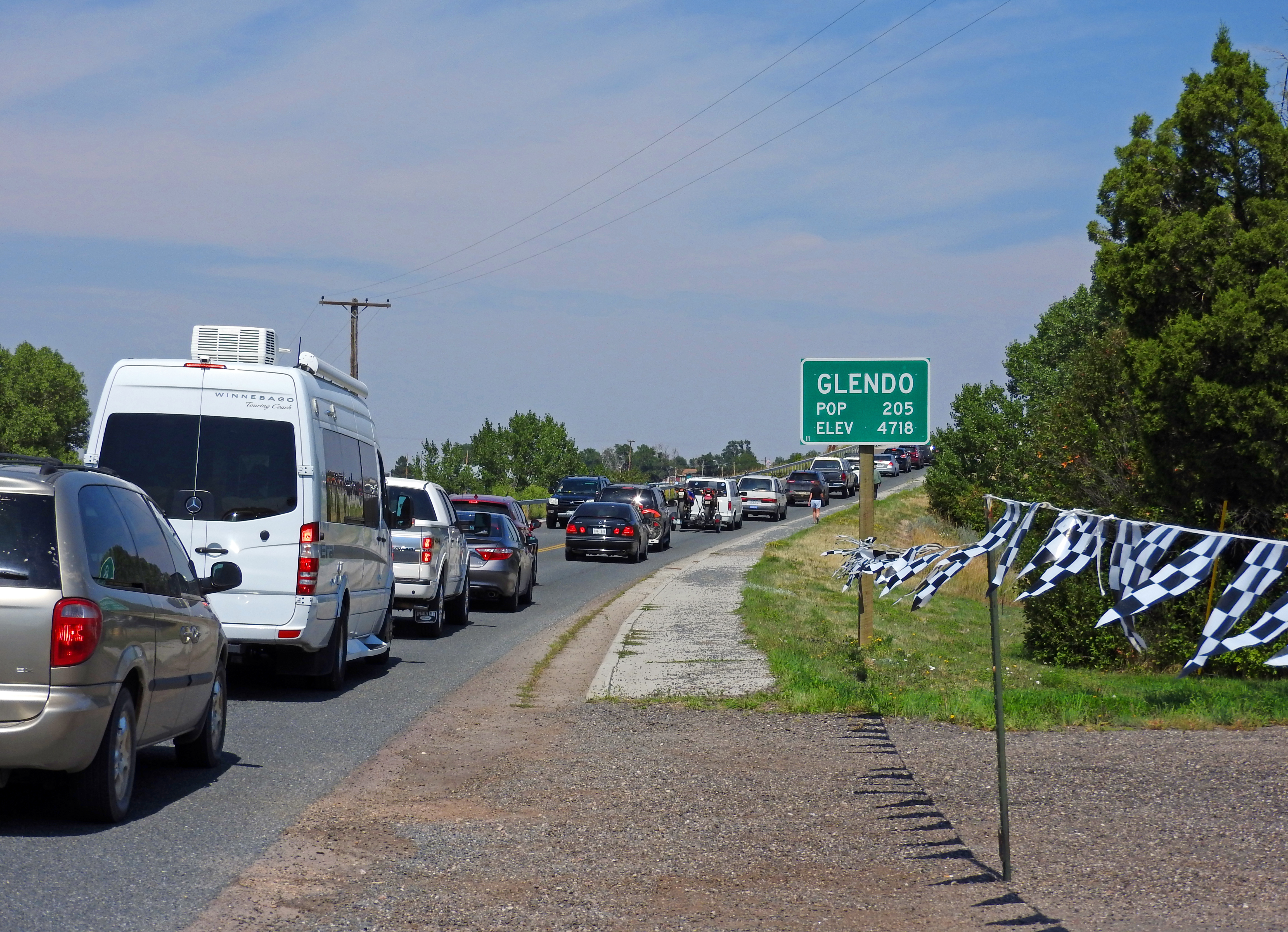 Some of the thousands of cars, creeping toward the entrance to I-25 to go home.